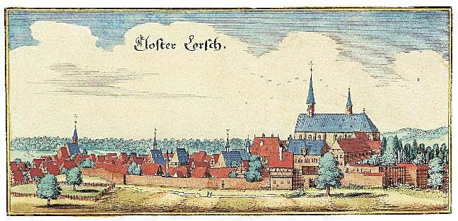 Coloured engraving shows the Monastery Lorsch, Hesse